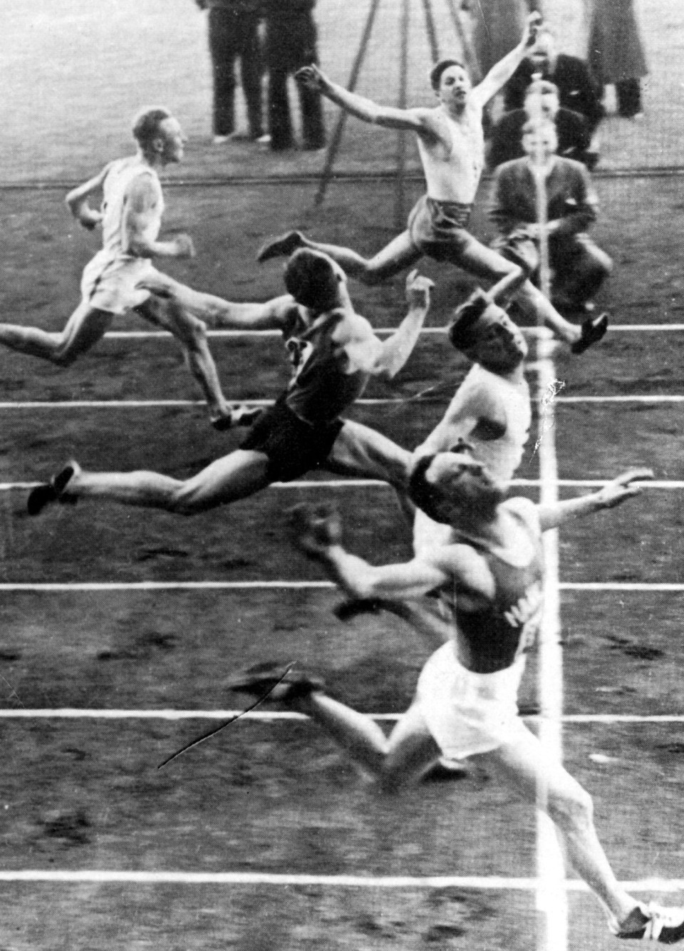 Finish line shot of the 1938 100 metre race at Helsinki Olympic Stadium. The winner Abraham Tokazier (closest to the camera) was declared fourth due to antisemitism. (First published on June 22, 1938, in Helsingin Sanomat. Fotograf: Wellen Neittamo (1893−1967))